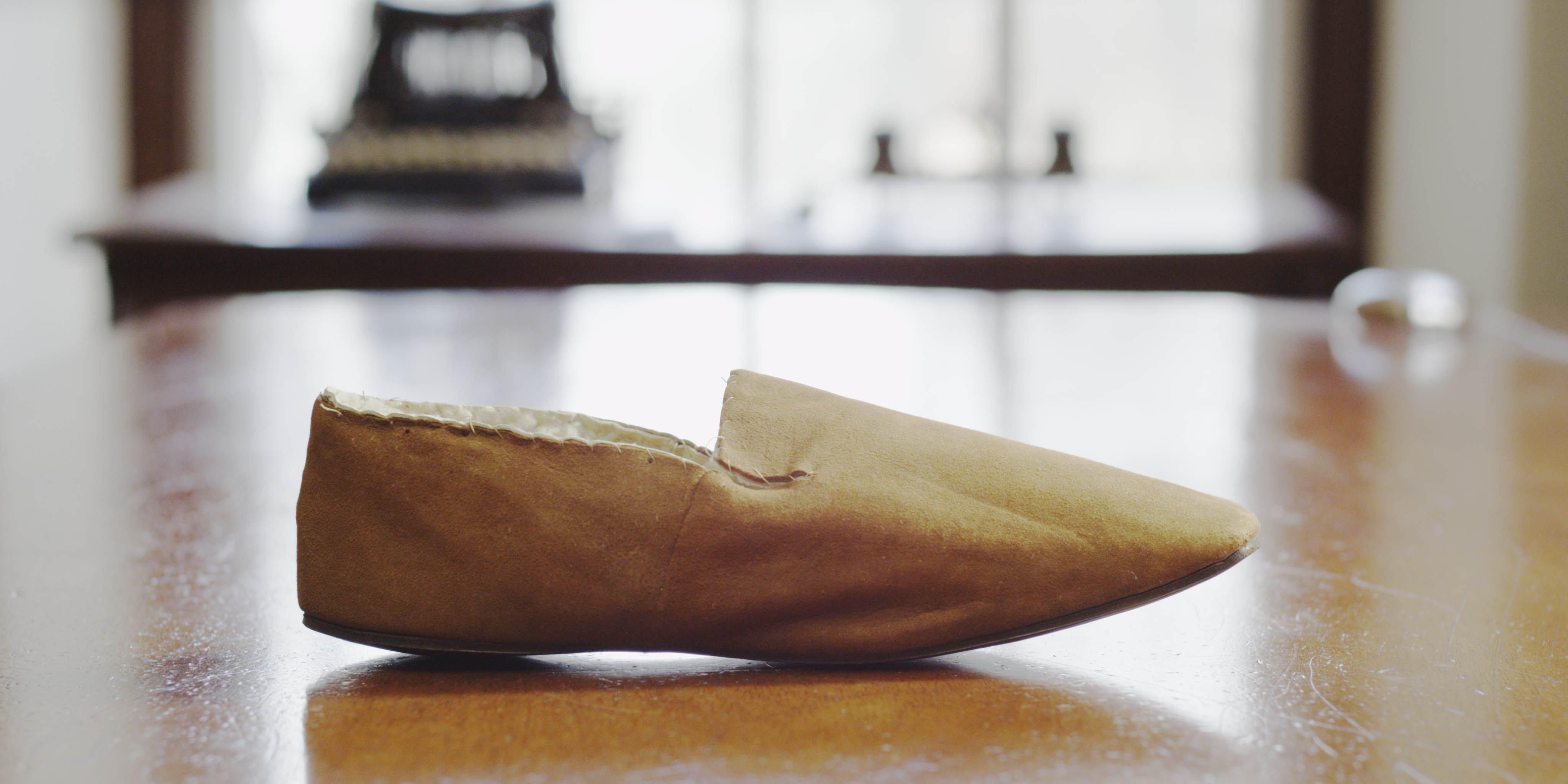 Photograph of a Clarks vintage Brown Petersburg slipper, made from an offcut of a sheepskin rug, circa 1825